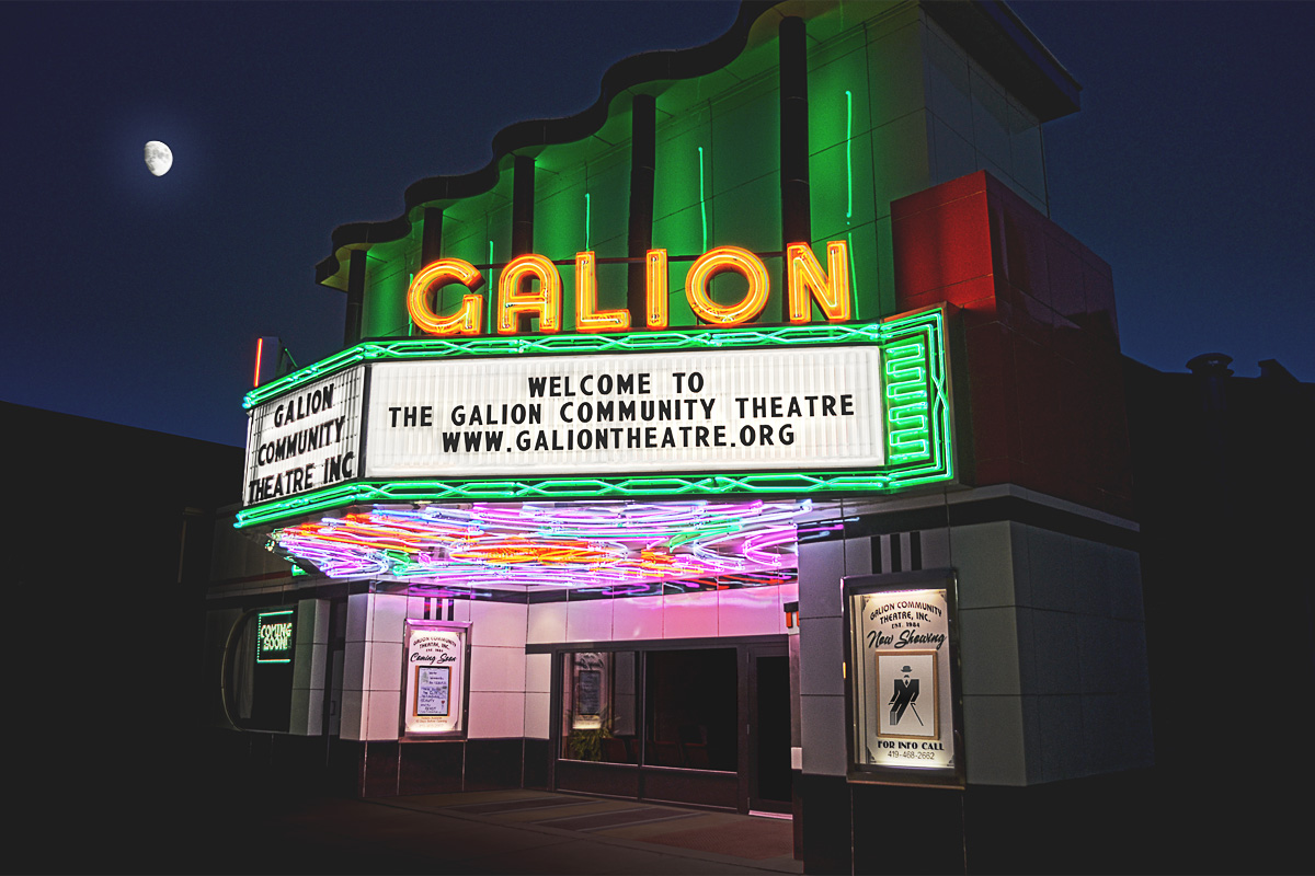 Located at 127 Harding Way W, Galion, OH, the Galion Theatre opened in July of 1949 as a state-of-the-art, 1,200-seat movie theatre and operated as a movie house until the early 1970s. It was then used as a restaurant and a nightclub until 1983. Various ventures were housed there until 1993 when it was purchased by the Galion Community Theatre organization in a greatly deteriorated state. The Galion Community Theatre's mission from that time on has been to renovate the building into a first-rate facility for providing the community with opportunities to experience the performing arts as performers, volunteers, and patrons. Since the original improvements to the building in 1993, which included the installation of an emergency lighting system, overhead canister lights, and the partial repair of the original marquee, the building has been renovated to its present condition as a 230-seat theatrical house, complete with professional lighting and sound systems, an expanded stage area, an art exhibit gallery, a restored front lobby and original ticket booth, remodeled restrooms, and the creation of backstage facilities, including dressing rooms, a make-up room, and a green room. The historic old marquee, reportedly one of the few remaining neon-lighted marquees in the state, has been fully restored to its original glory. With the financial support of community foundations, legacies from the estates of deceased members, and generous donations from local service clubs, businesses, and individuals, the Galion Community Theatre has to date invested approximately $932,000 + worth of purchased improvements to the Galion Theatre, a sum which does not include the thousands of dollars of donated material and tens of thousands of hours of volunteer labor and expertise which have gone into the project.